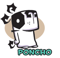 Poncho.png